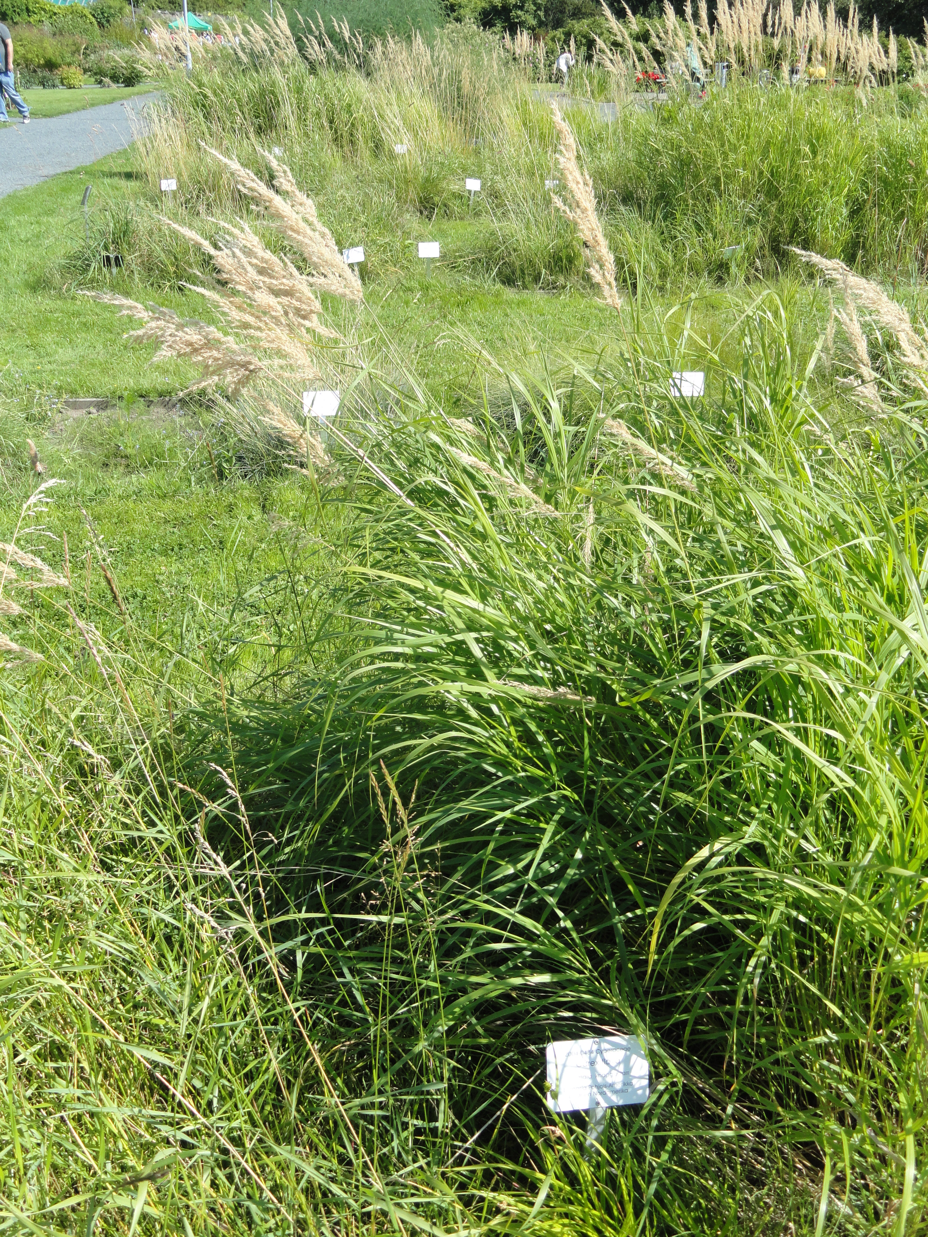 Botanical specimen. The University of Helsinki Botanical Garden at Kaisaniemi